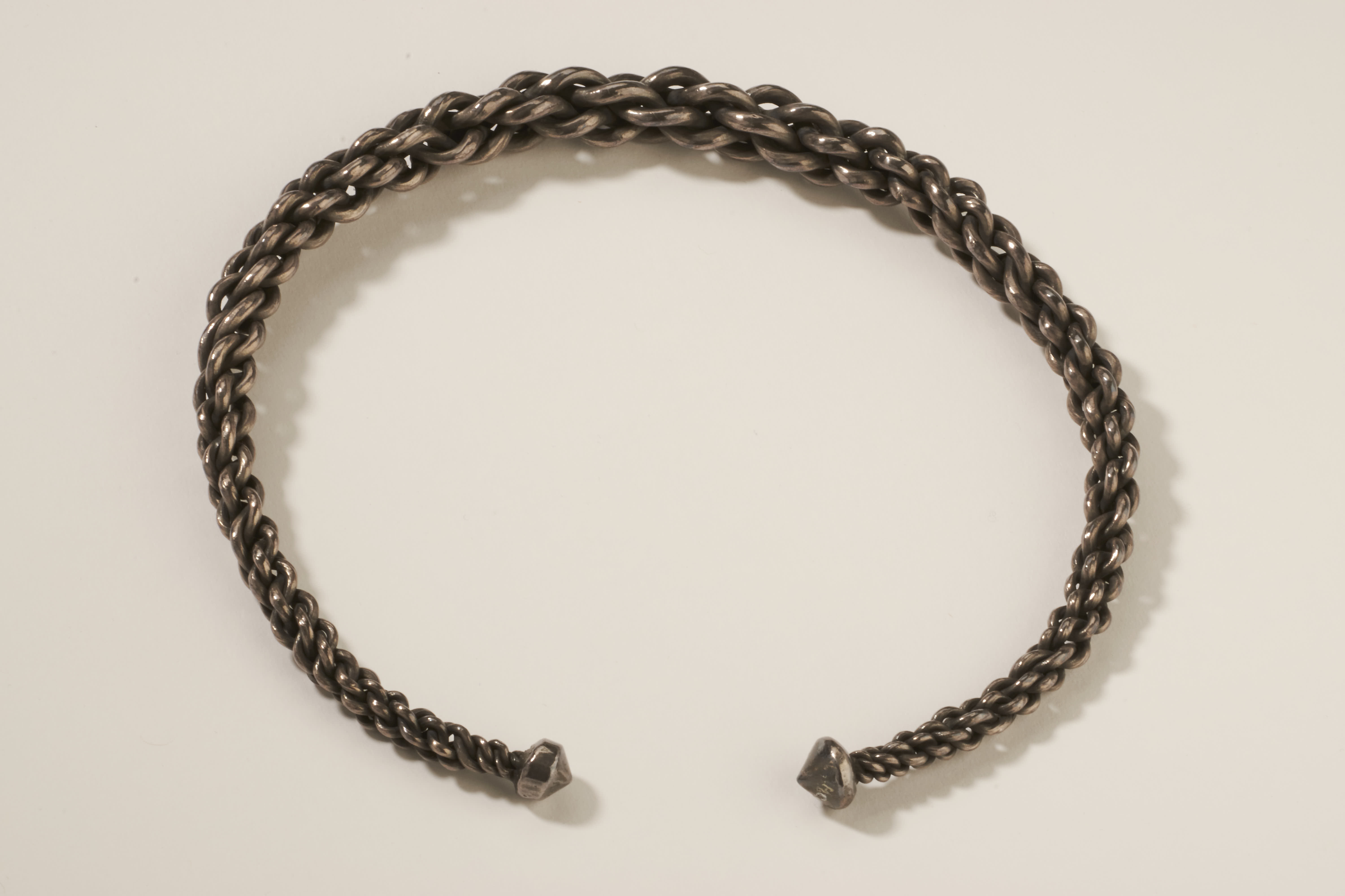 Viking neck-ring twisted from pairs of silver rods and features solid, dome-shaped terminals. Though these are of usual form, in other respects the object is typical of various other Viking-age neck-rings. Several hundred silver neck-rings of this date are on record. Most are from Scandinavia itself.